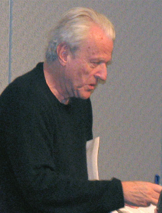 The Princess Bride writer William Goldman His Q&A closed the Expo and included the largest audience of the Expo.